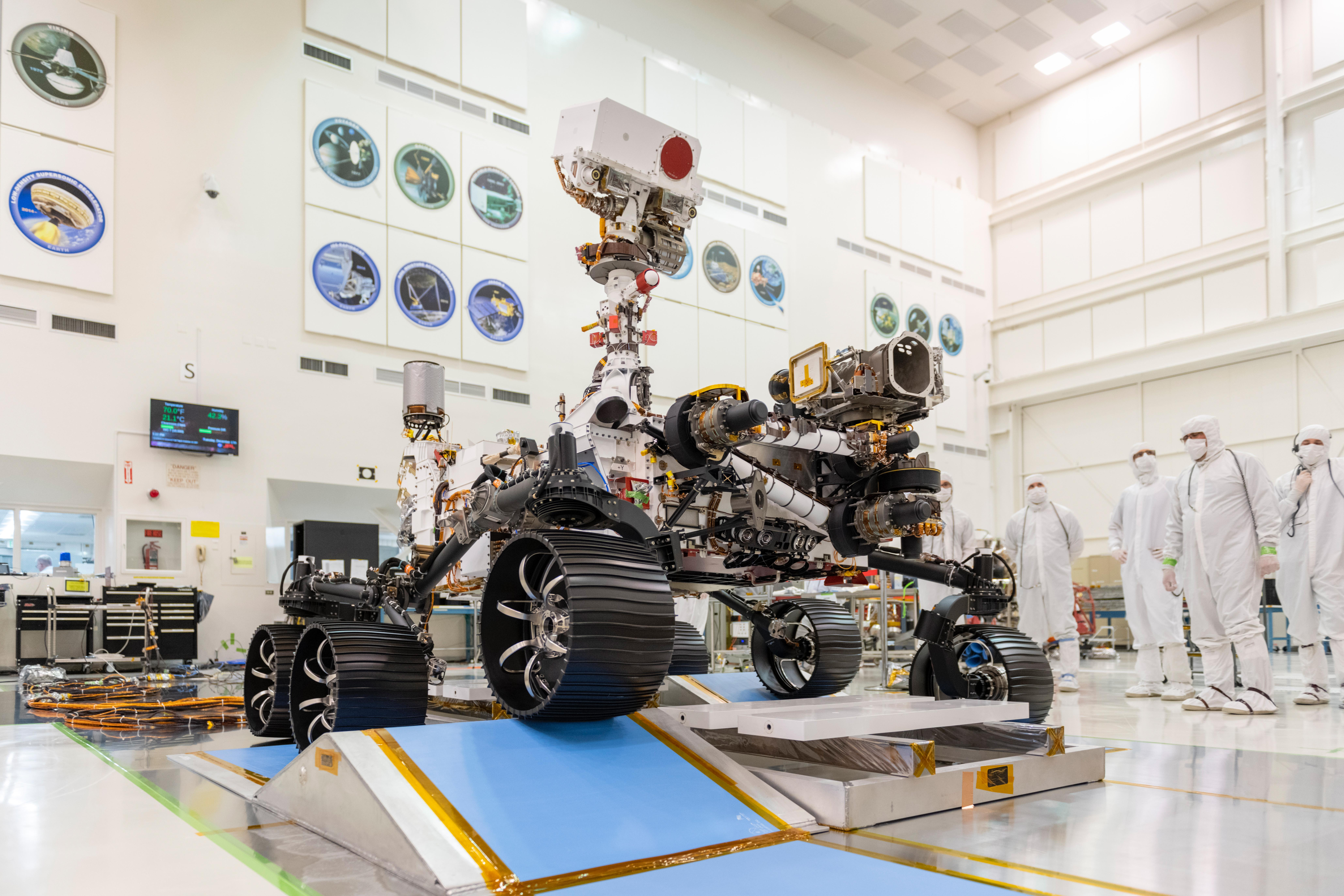 Mars 2020 Rover Is Roving In a clean room at NASA's Jet Propulsion Laboratory in Pasadena, California, engineers observed the first driving test for NASA's Mars 2020 rover on Dec. 17, 2019. Scheduled to launch as early as July 2020, the Mars 2020 mission will search for signs of past microbial life, characterize Mars' climate and geology, collect samples for future return to Earth, and pave the way for human exploration of the Red Planet. It is scheduled to land in an area of Mars known as Jezero Crater on Feb. 18, 2021. JPL is building and will manage operations of the Mars 2020 rover for NASA. NASA's Launch Services Program, based at the agency's Kennedy Space Center in Florida, is responsible for launch management. For more information about the mission, go to